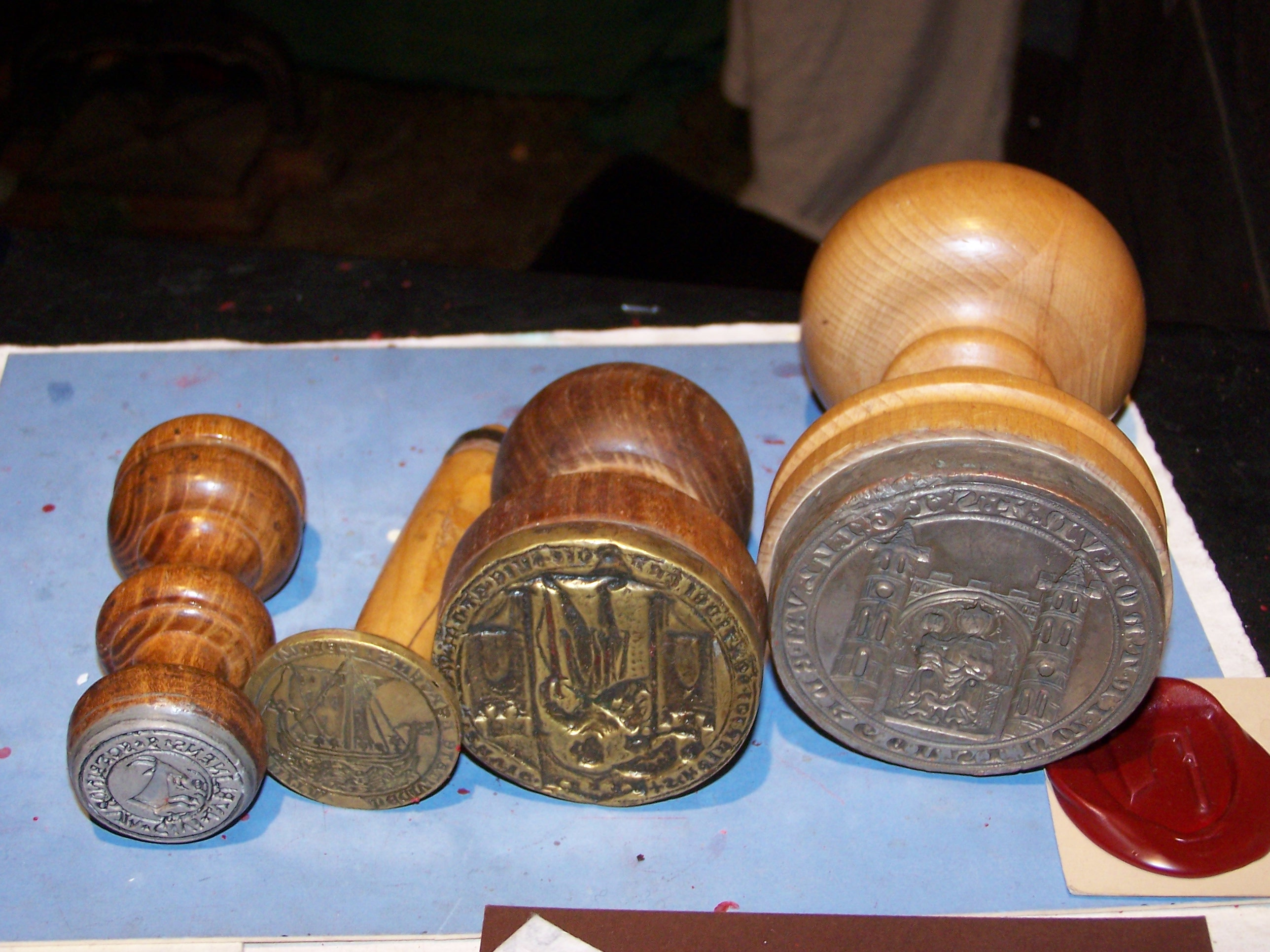 Medieval seals.